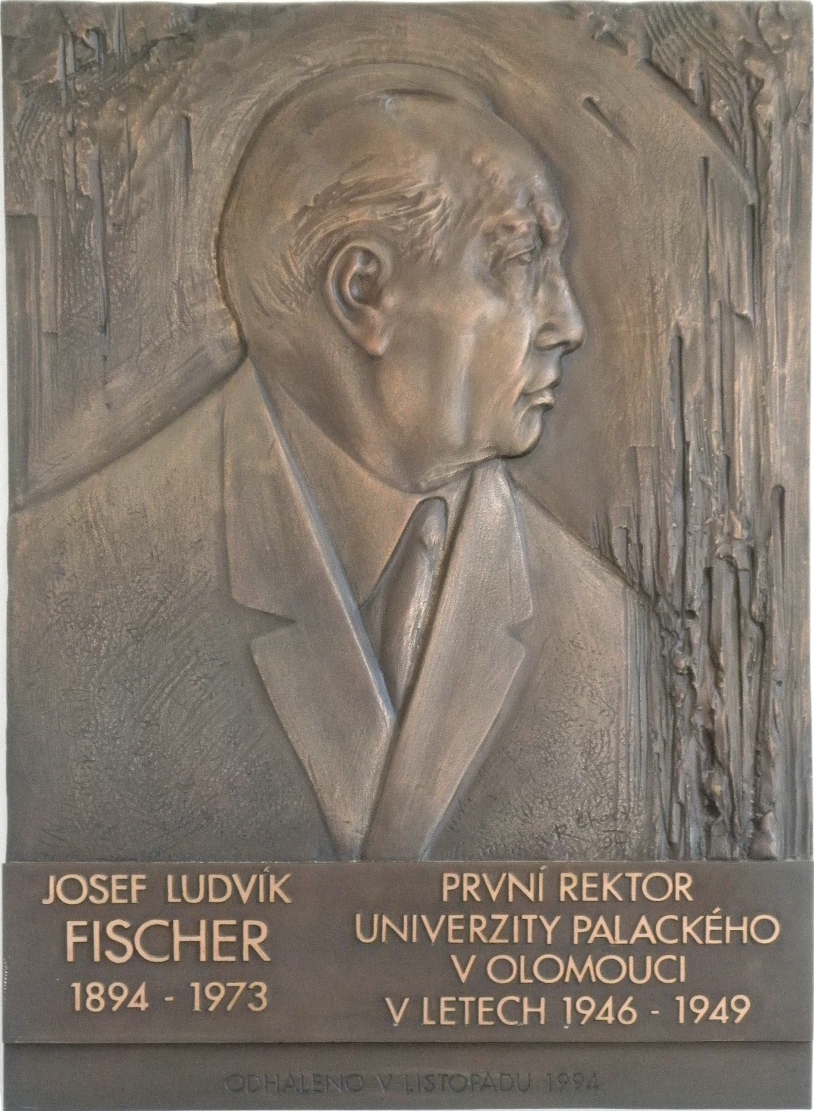 Memorial plaque of Josef Ludvík Fischer, the first rector of the Palacký University in 1946-1949. The plaque was installed in 1994.